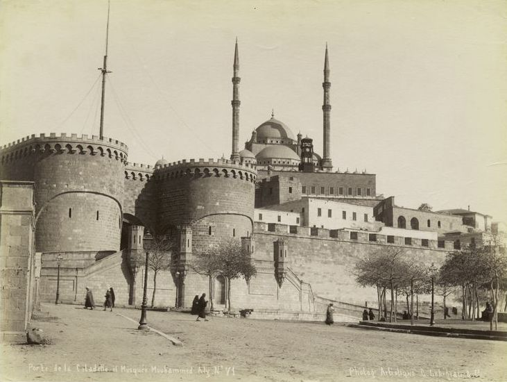 Digital ID: 88414. G. Lekegian & Cie. -- Photographer. 1860s-1920s Source: [Photographs and prints of Egypt and Syria.] (more info) Repository: The New York Public Library. Photography Collection, Miriam and Ira D. Wallach Division of Art, Prints and Photographs. See more information about this image and others at NYPL Digital Gallery. Persistent URL: Rights Info: No known copyright restrictions; may be subject to third party rights (for more information, click here)